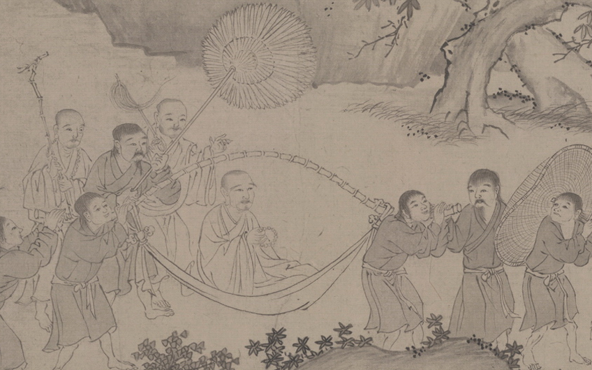 Trúc Lâm Đại Sĩ Xuất Sơn Chi Đồ- 14th century scroll, Liaoning museum